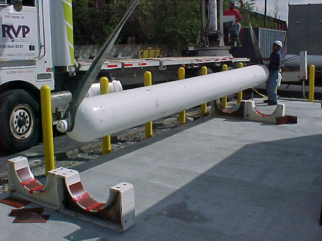 Photo taken by Jerry Myers, P.E., 03/02/2005. Subject is compressed natural gas (CNG) storage cylinder (5500 psig MAWP) in the process of being installed in saddles with micarta sheets for electrical insulation. Note red tape holding micarta temporarily in place and unused sheets in shadows at right.